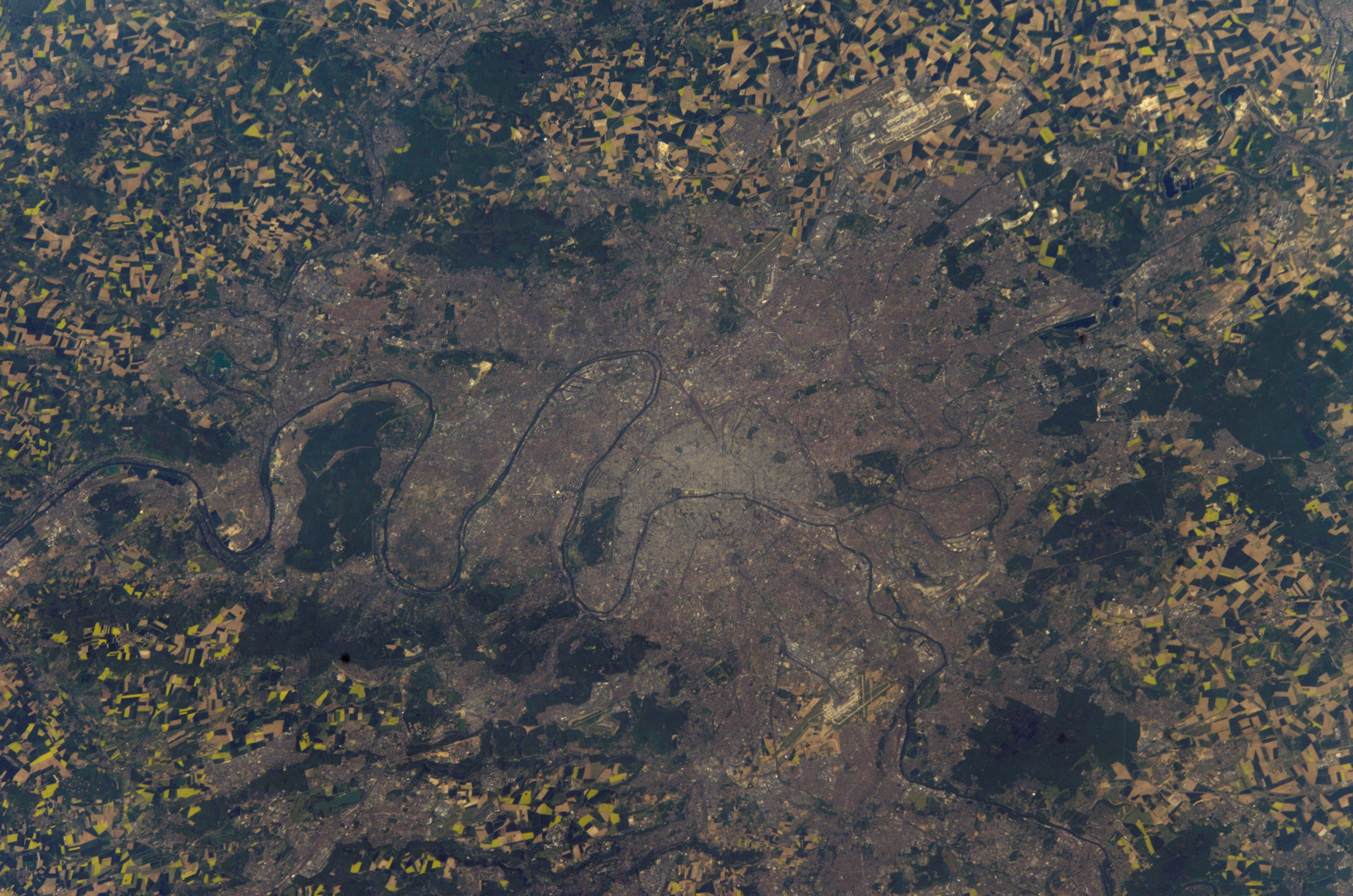 Satellite picture of Paris, April 2002. "The colors of the agricultural fields surrounding Paris are striking in the springtime, even when viewed from a 400 km orbital altitude. Astronauts on board the International Space Station photographed Paris using a digital camera and downlinked the image to the ground."